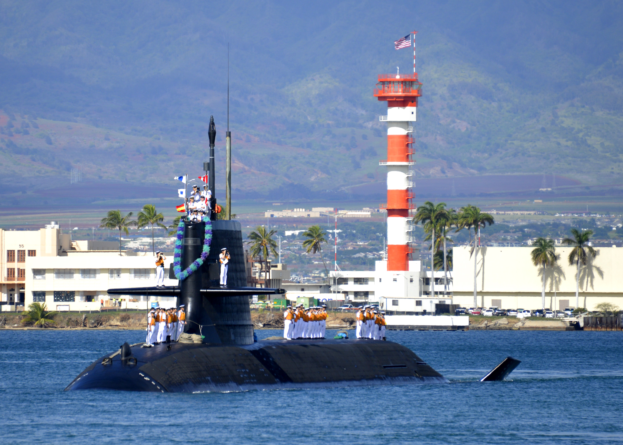 Japan Maritime Self Defense Force (JMSDF) submarine Hakuryu (SS-503) arrives at Joint Base Pearl Harbor-Hickam for a scheduled port visit, Feb. 6. While in port, the submarine crew will conduct various training evolutions and have the opportunity to enjoy the sights and culture of Hawaii. (U.S. Navy photo by Cmdr. Christy Hagen/Released) Nikon D600 ↑ 平成24年度第2回米国派遣訓練（潜水艦）について - 海上幕僚監部、2013年1月11日